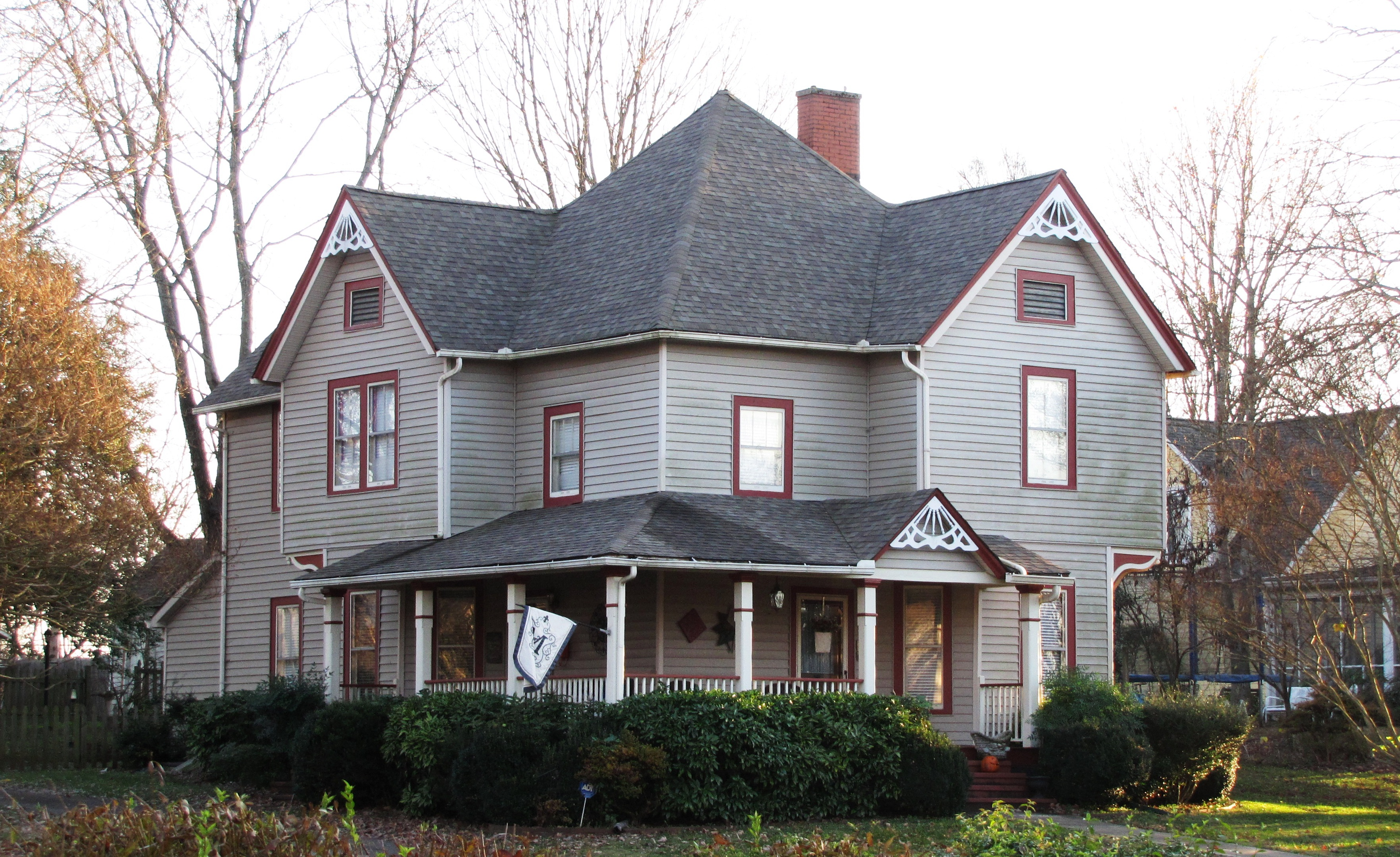 House at 216 Indiana Avenue in the College Hill Historic District in Maryville, Tennessee, USA. Built circa 1906, this house is now a contributing property within the NRHP-listed Indiana Avenue Historic District.